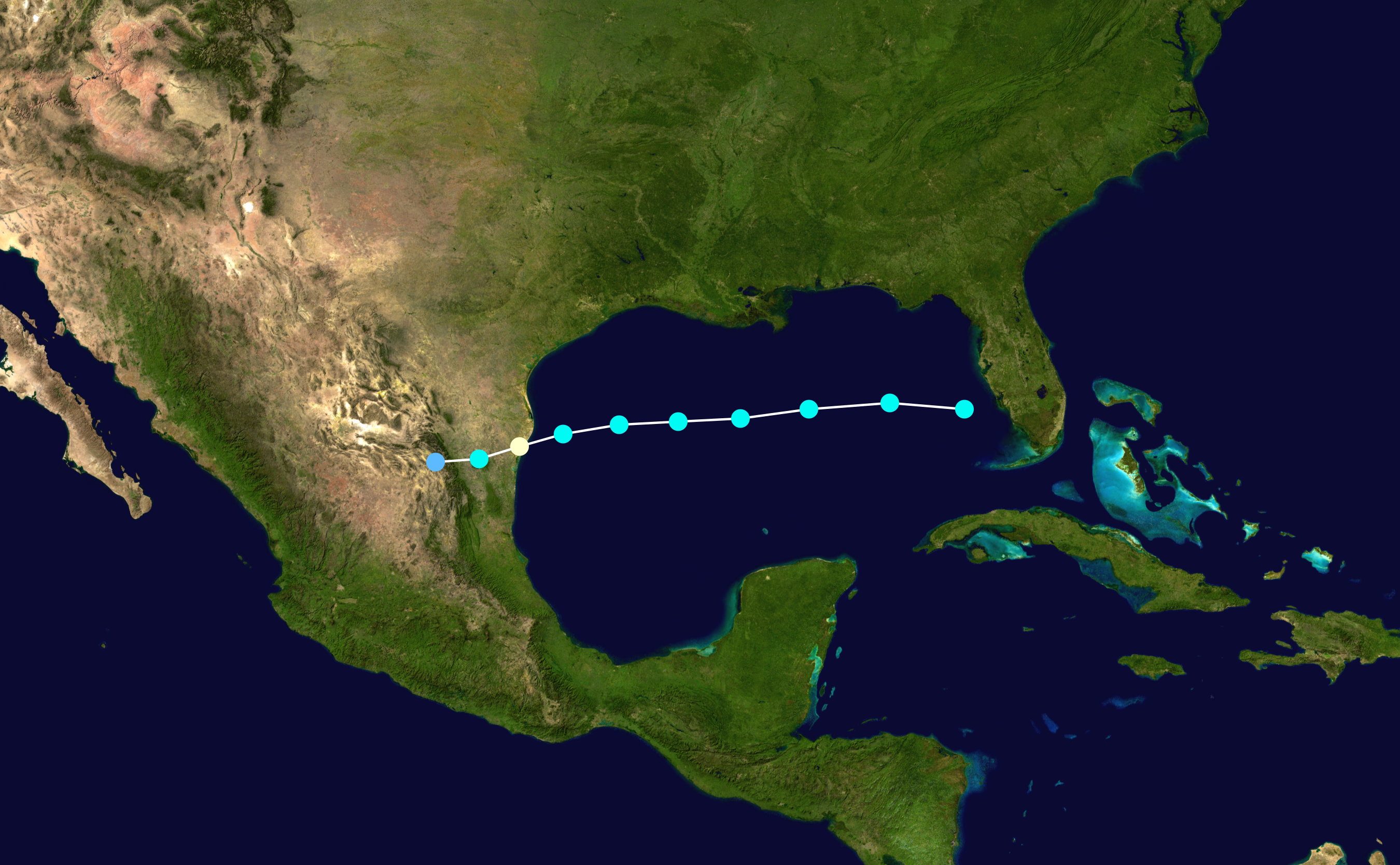 Track map of Hurricane Erika of the 2003 Atlantic hurricane season. The points show the location of the storm at 6-hour intervals. The colour represents the storm's maximum sustained wind speeds as classified in the Saffir–Simpson scale (see below), and the shape of the data points represent the nature of the storm, according to the legend below. Saffir–Simpson scale Tropical depression≤38 mph≤62 km/h Category 3111–129 mph178–208 km/h Tropical storm39–73 mph63–118 km/h Category 4130–156 mph209–251 km/h Category 174–95 mph119–153 km/h Category 5≥157 mph≥252 km/h Category 296–110 mph154–177 km/h Unknown Storm type Tropical cyclone Subtropical cyclone Extratropical cyclone / Remnant low / Tropical disturbance / Monsoon depression